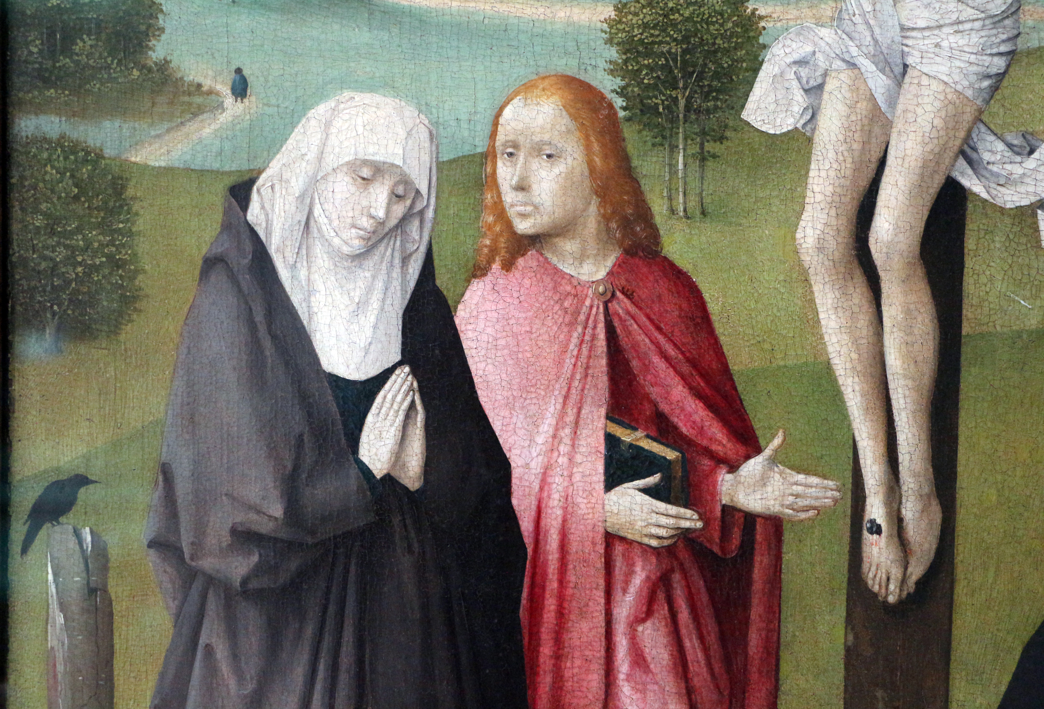 Early Netherlandish paintings in the Royal Museums of Fine Arts of Belgium